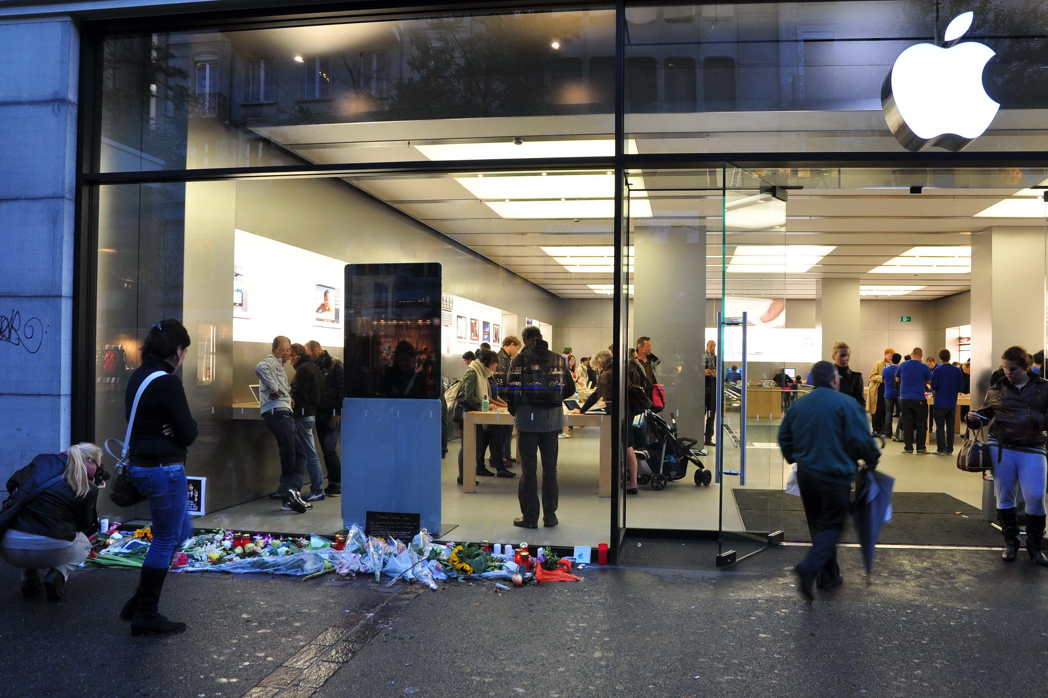 October 7, 2011, people pay tribute after Steve Jobs's death outside Category:Bahnhofstrasse, Zürich Apple Store